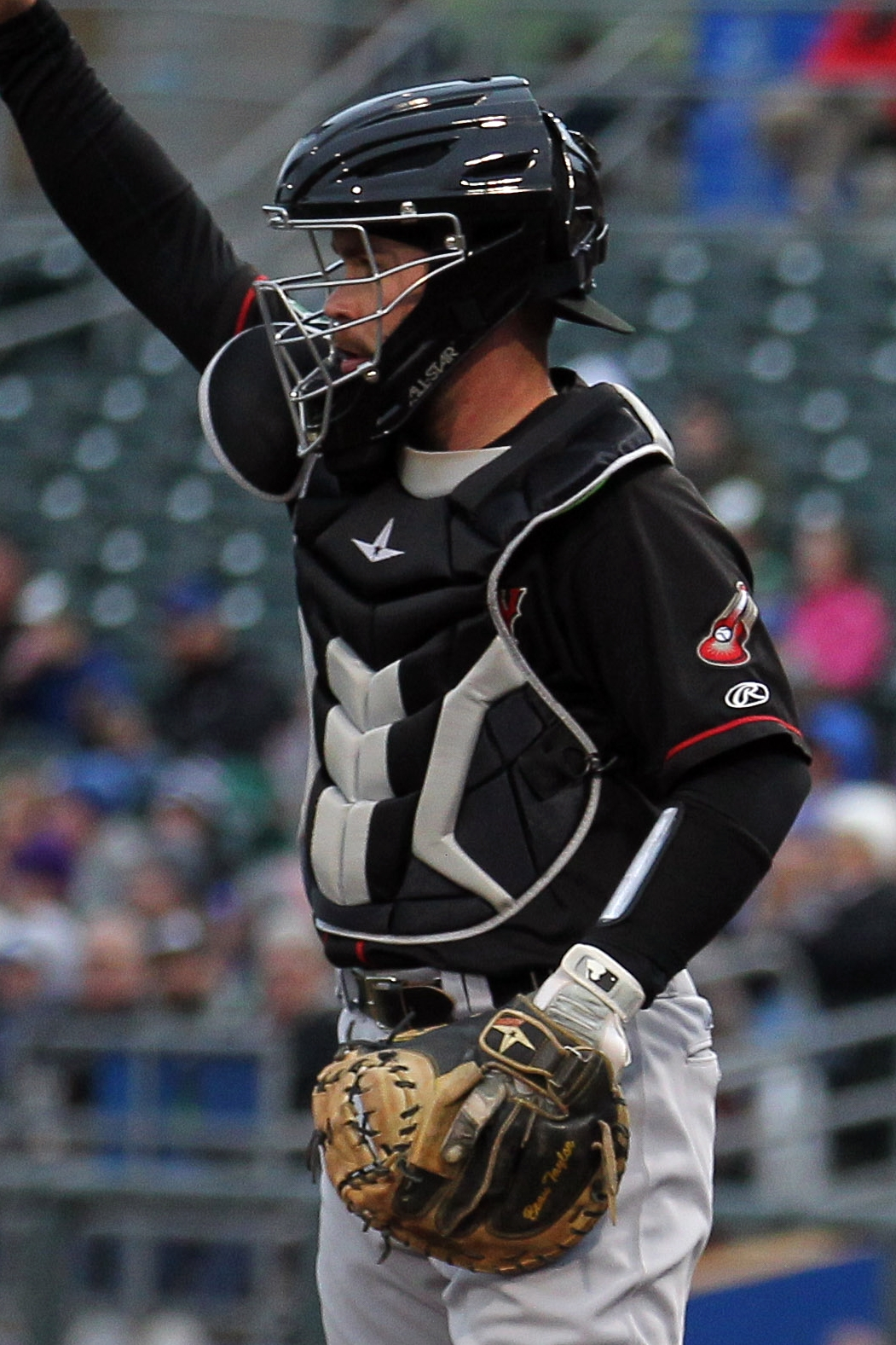 Catcher Beau Taylor playing in a game for the Nashville Sounds in 2018. Minda Haas Kuhlmann | 2018 USAGE INSTRUCTIONS: You are welcome to share or publish to your own site or social media account, but you MUST credit me, Minda Haas Kuhlmann. Twitter: @minda33. Instagram: minda.haas